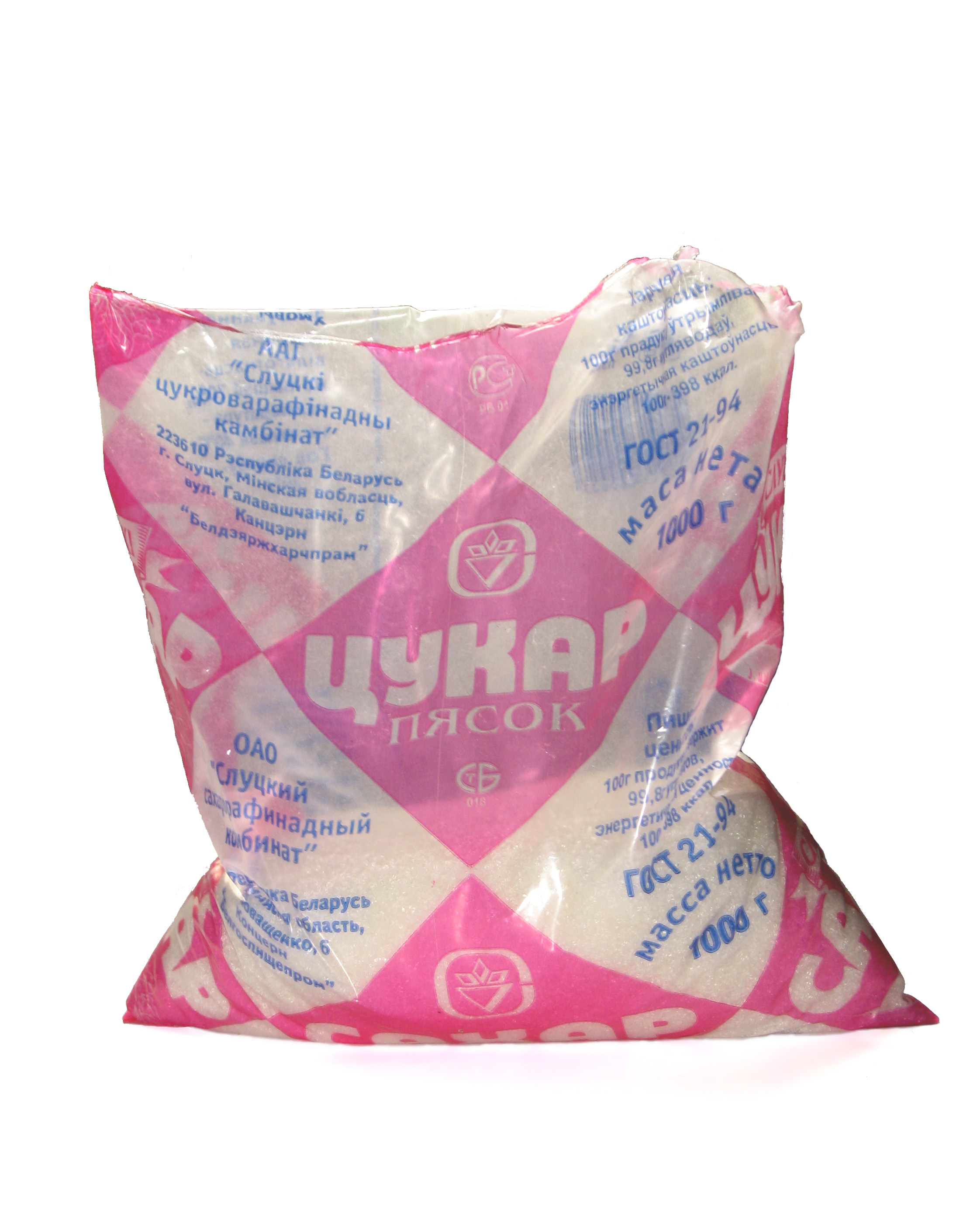 A pack of sugar produced by Slutsk Sugar Refinery. Беларуская (тарашкевіца): Пачак цукру вытворчасьці Слуцкага цукроварафінаднага камбіната.